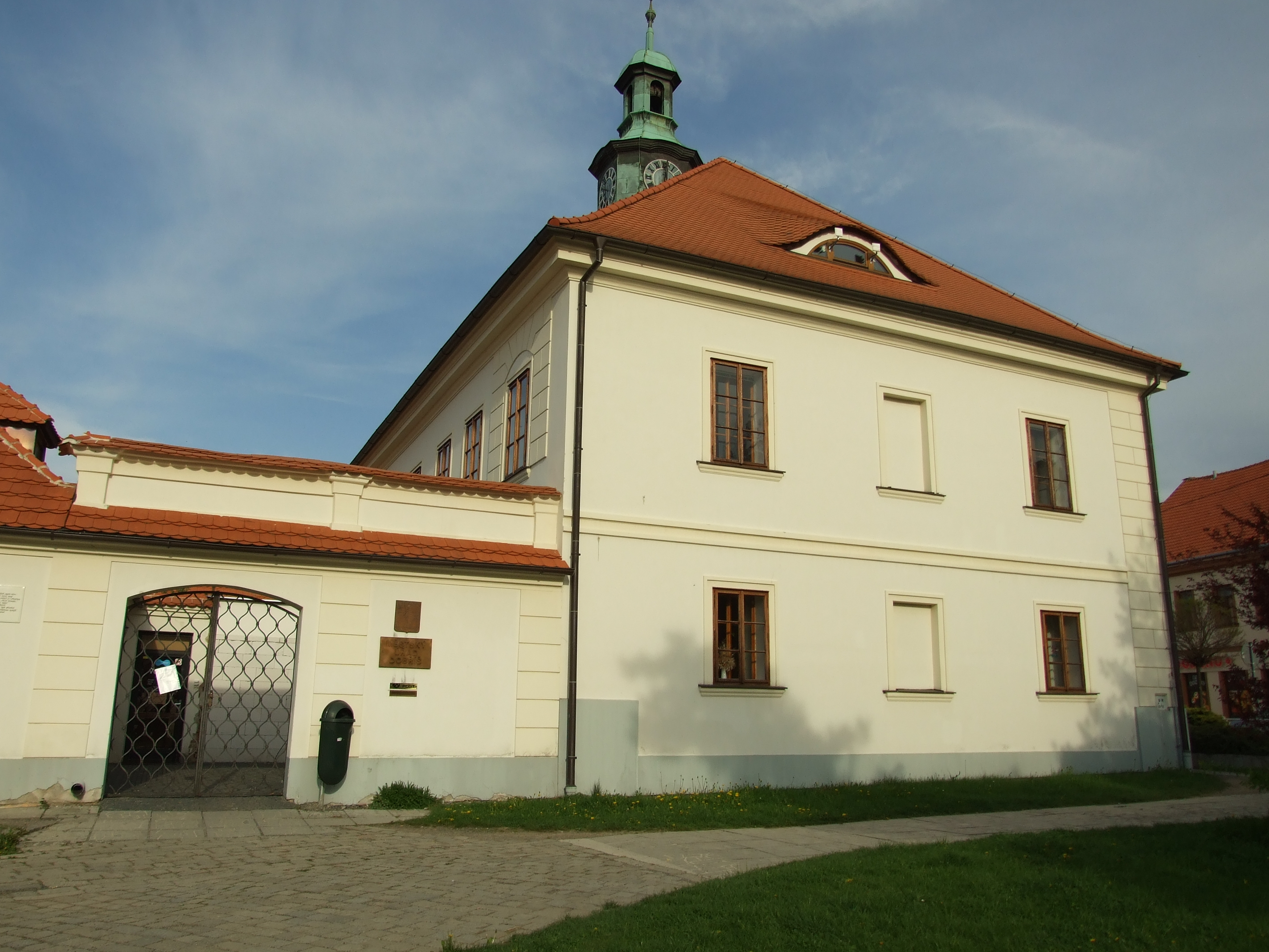 Town of Dobříš and its surrounding nature in Central Bohemian region, CZhelp